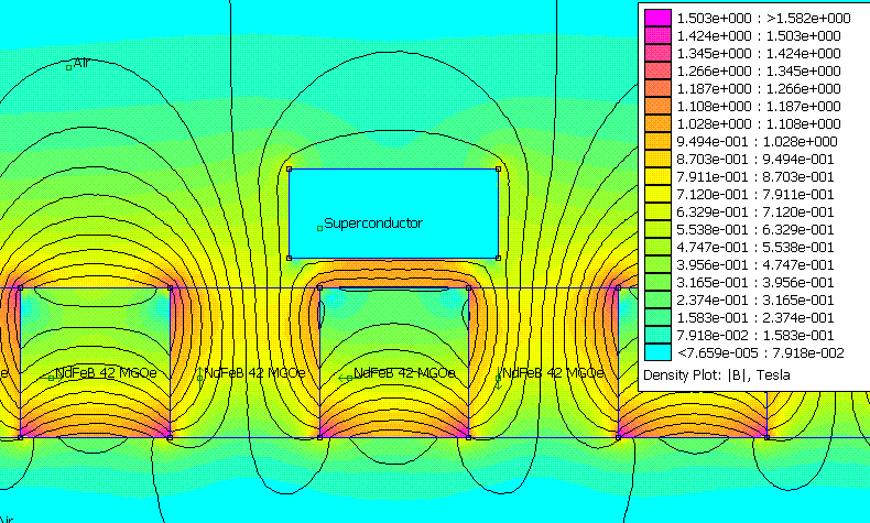 Screenshot of magnetic arrangement created by uploader, FEMM license specifically derestricts screenshots